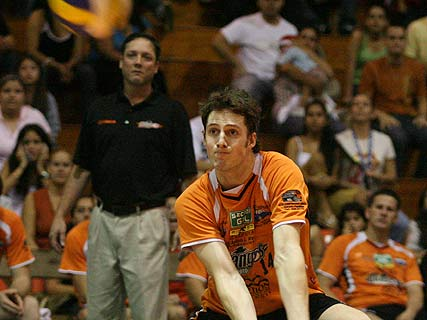 United States volleyball player Steve Klosterman in play-off match season 2007.